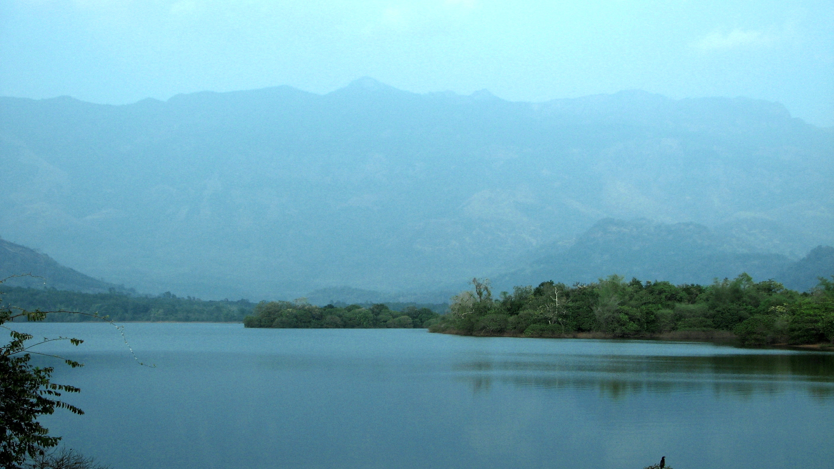 self-made photograph ; Author's Name : Infocaster